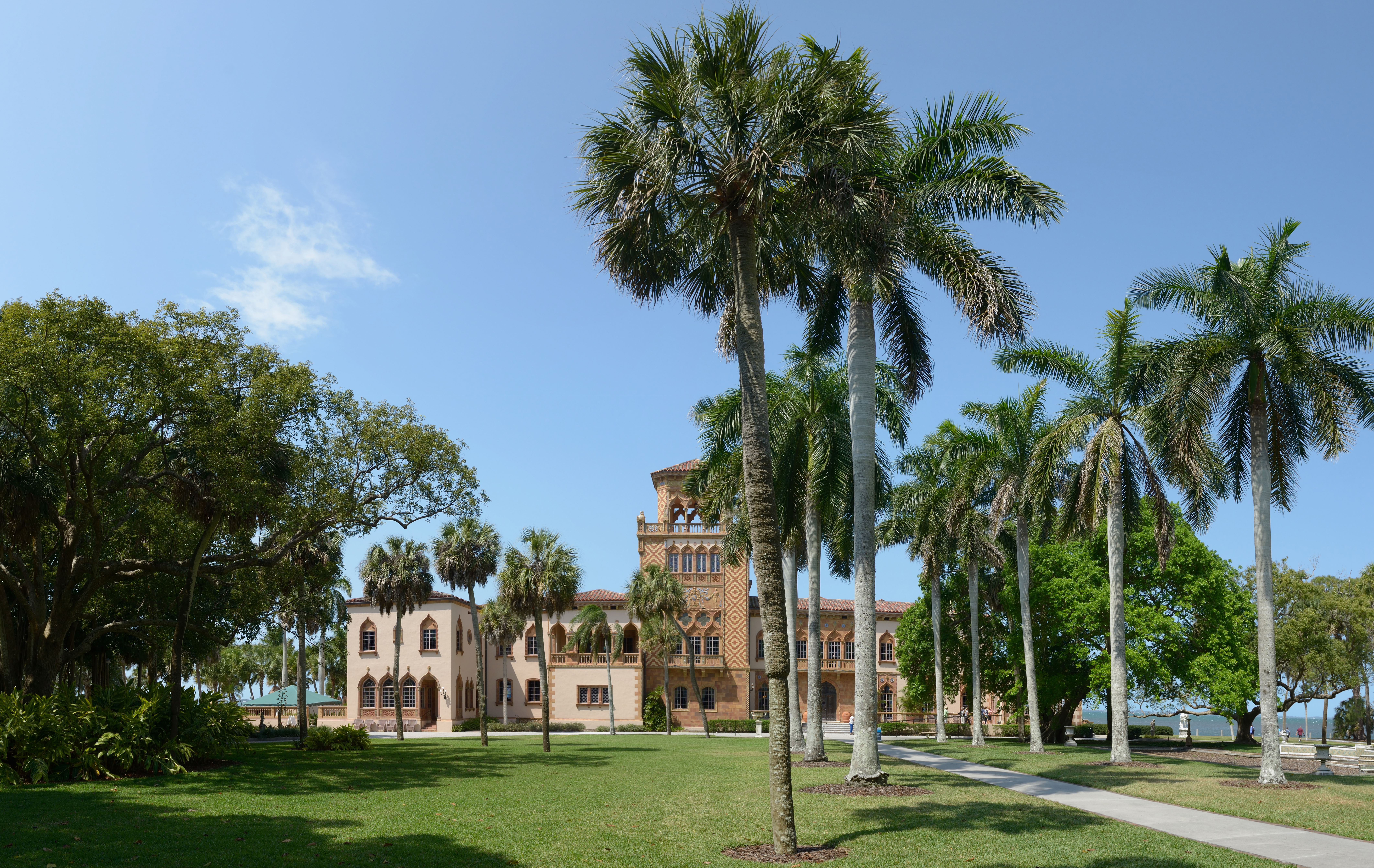 Cà d'Zan at the John and Mable Ringling Museum of Art in Sarasota in Florida.